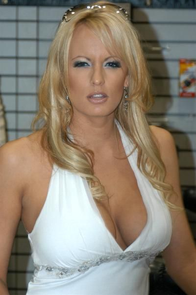 Pornographic actress Stormy Daniels.